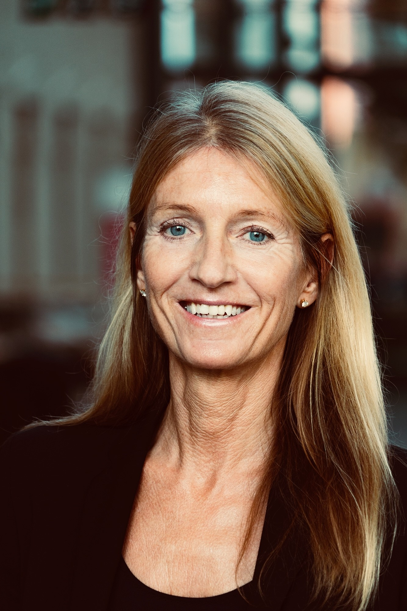 Picture of Swedish Professor Sofia Börjesson